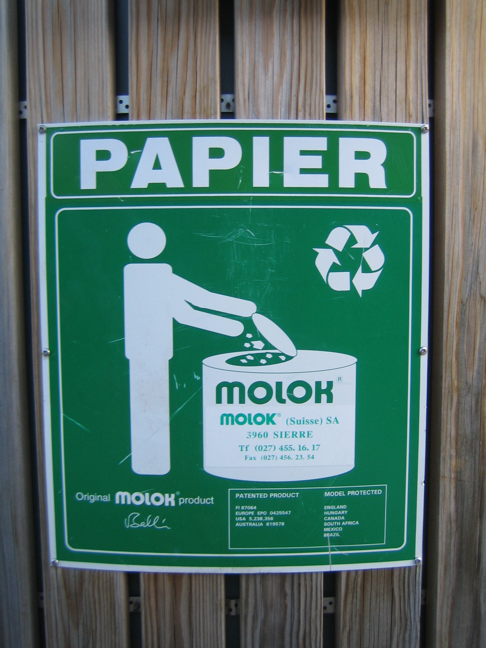 Wooden trash container